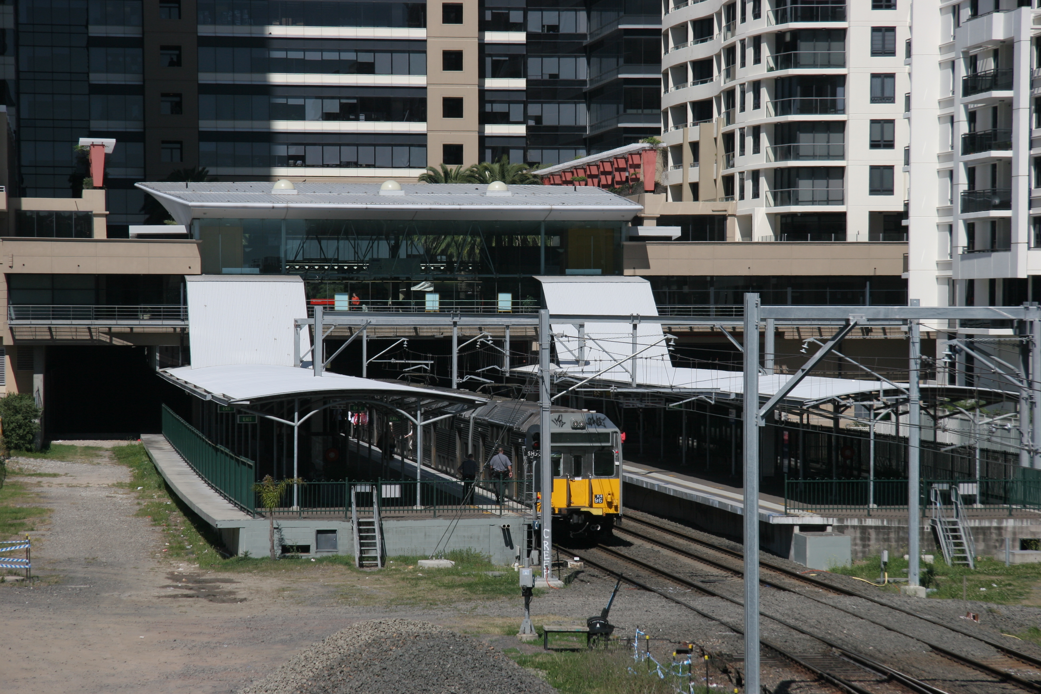 St Leonards railway station, New South Wales, Australia. Facing south.